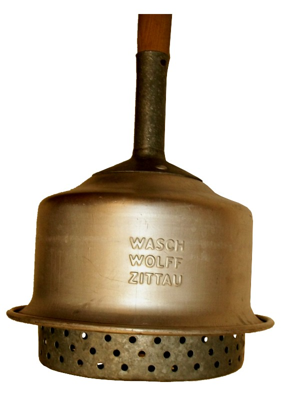 Washing bell